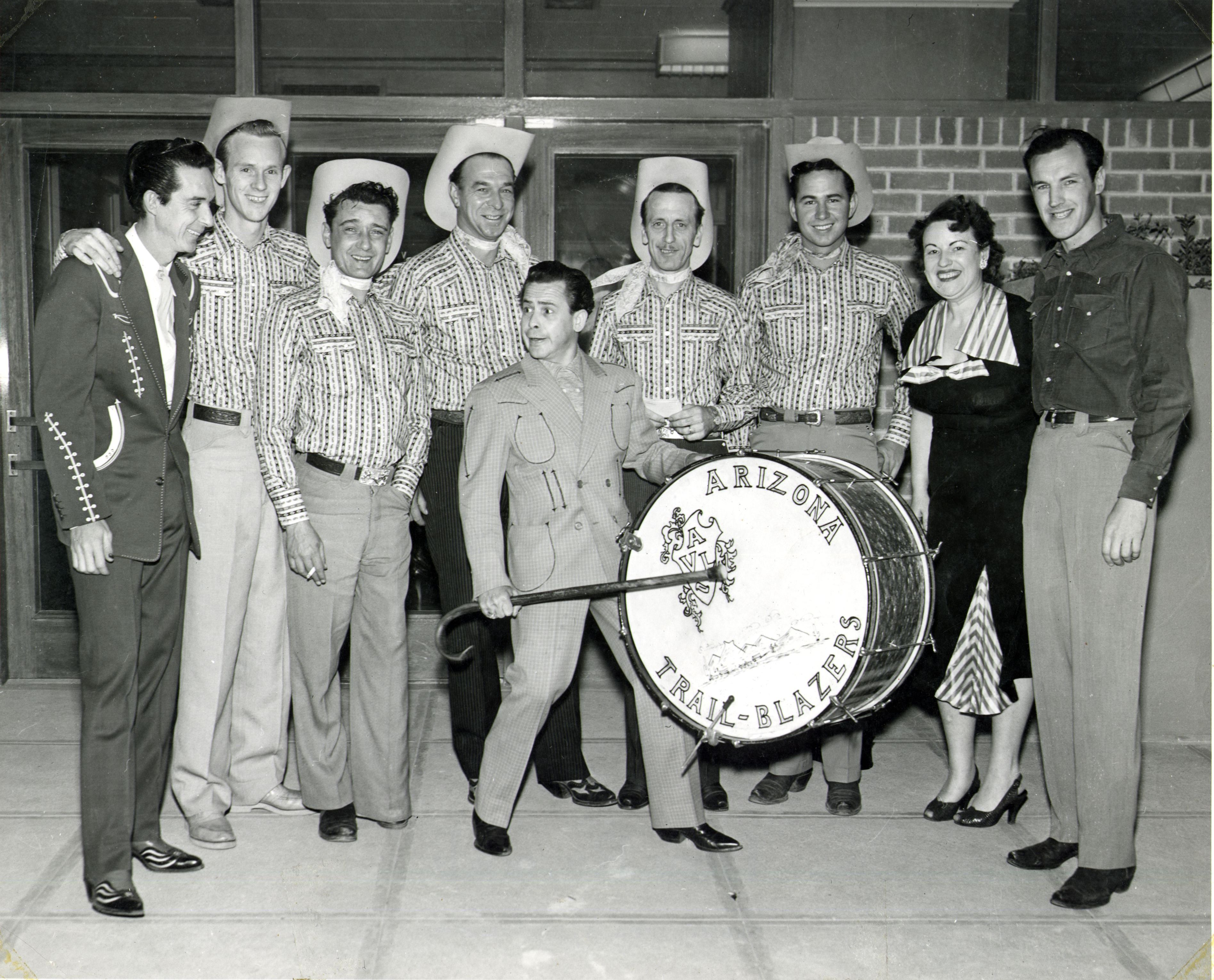 1952 B&W photograph of Donn Reynolds (far right) with his band members, Ray Price, Jimmy Dickens, and Del Wood